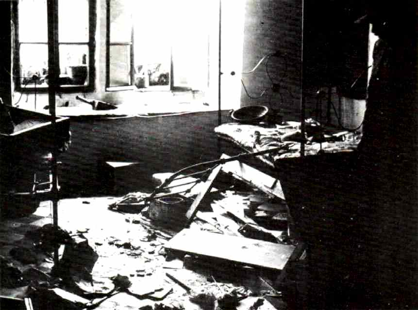 Scene of destruction in the Jewish Quarter of Hebron after the Arab riots of 1929.